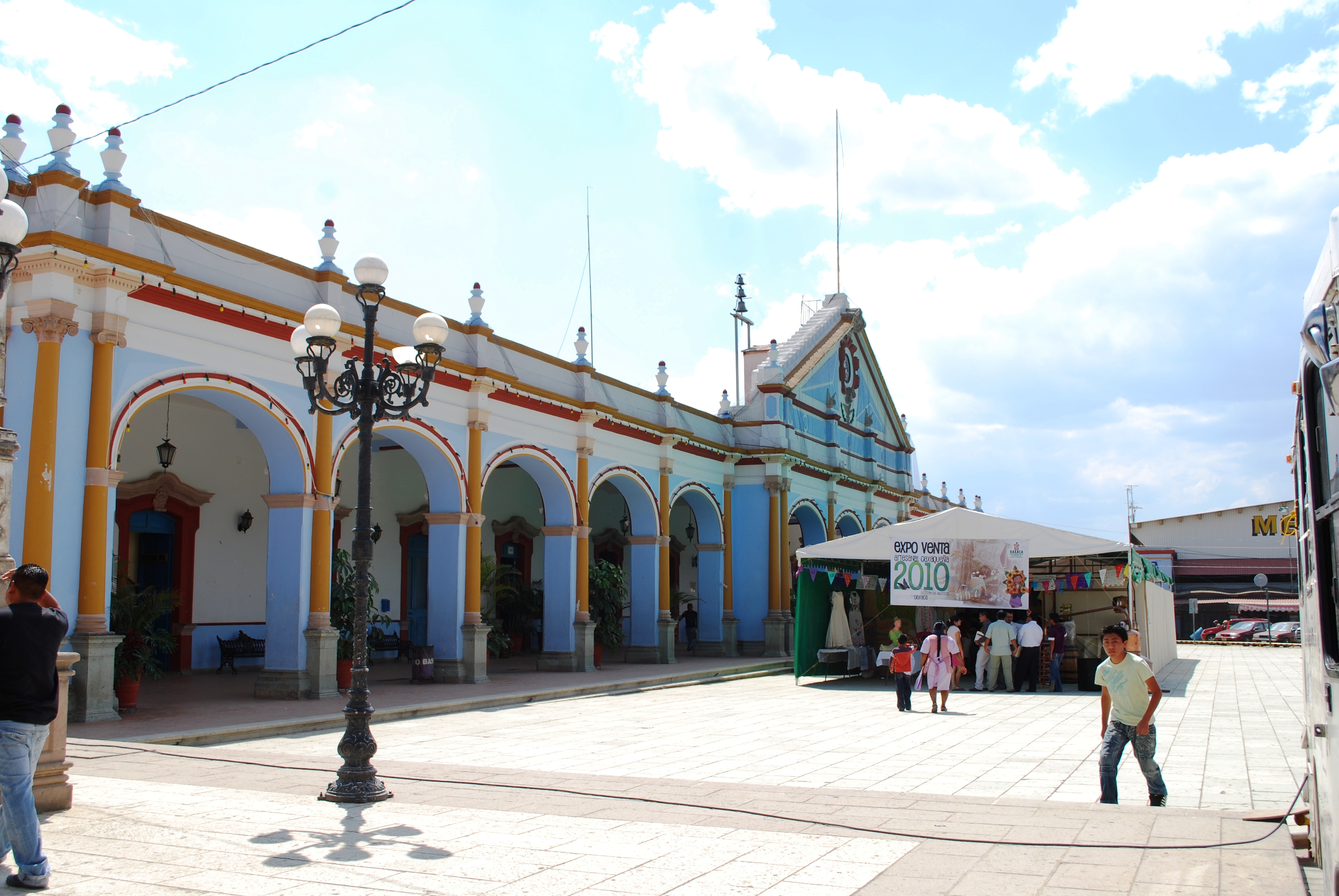 Municipal palace with crafts fair in front in Ocotlan de Morelos, Oaxaca, Mexico